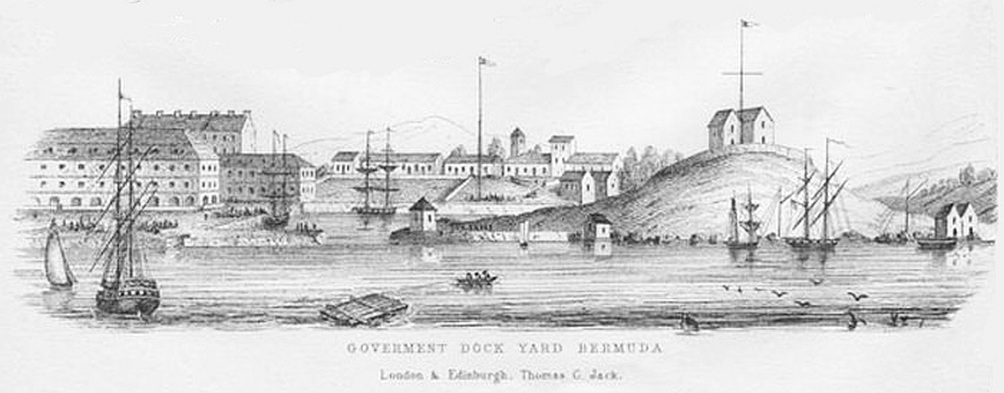 An engraving of the HM Dockyard on Ireland, in Bermuda, circa 1860, by Thomas Chisholm Jack. Grange Publishing Works, 213-215, Causewayside, Edinburgh, Scotland